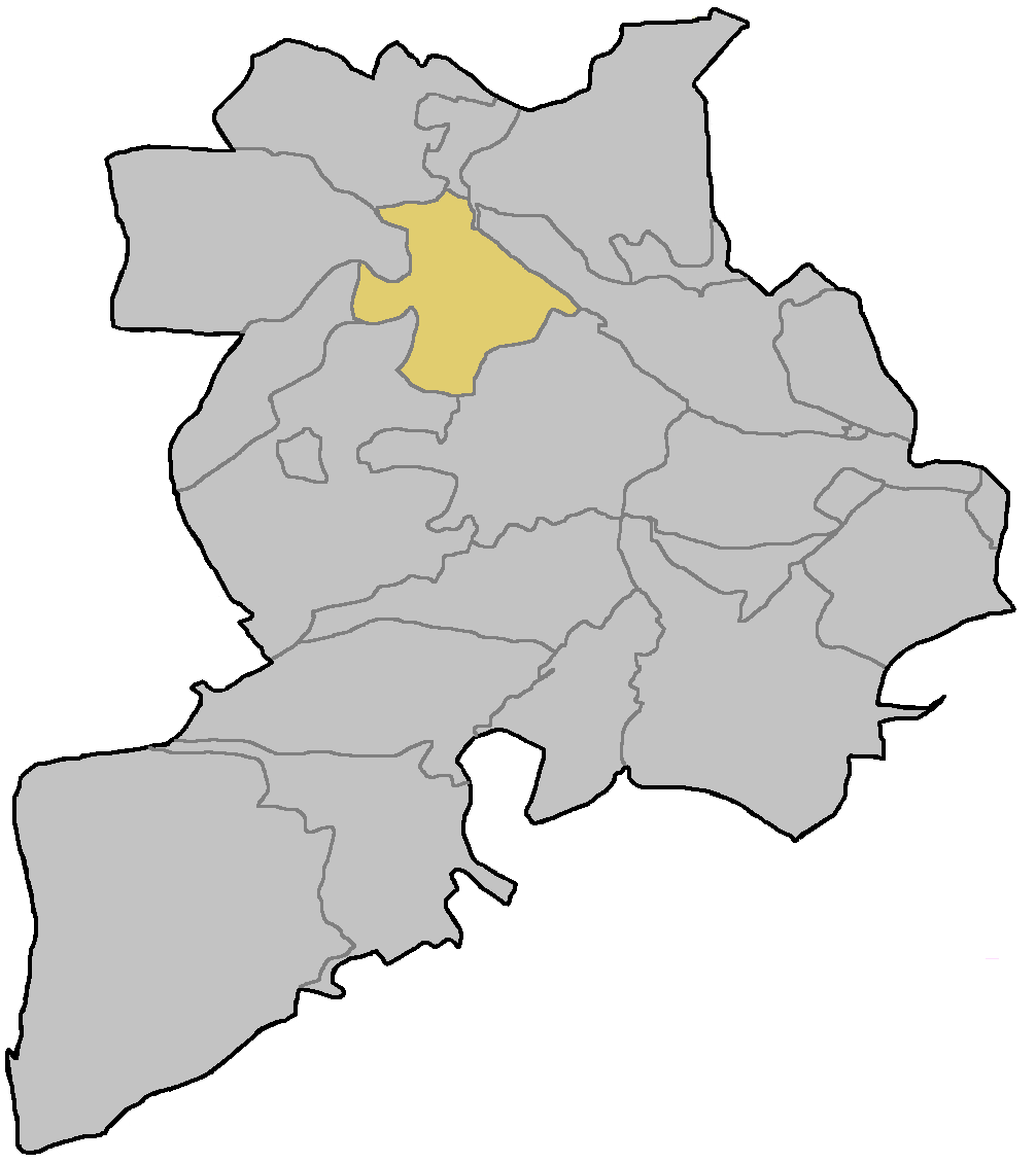 Locator map of Zauckerode in Freital